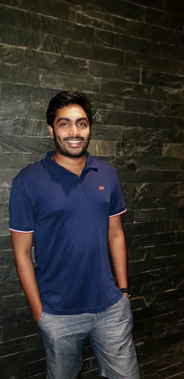 Own work